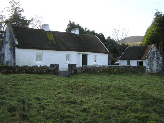 Seán Mac Diarmada's House. Looking south-west; see internal view here 1127527